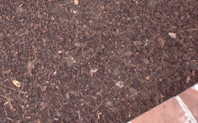 Aged mulch of coarse home compost